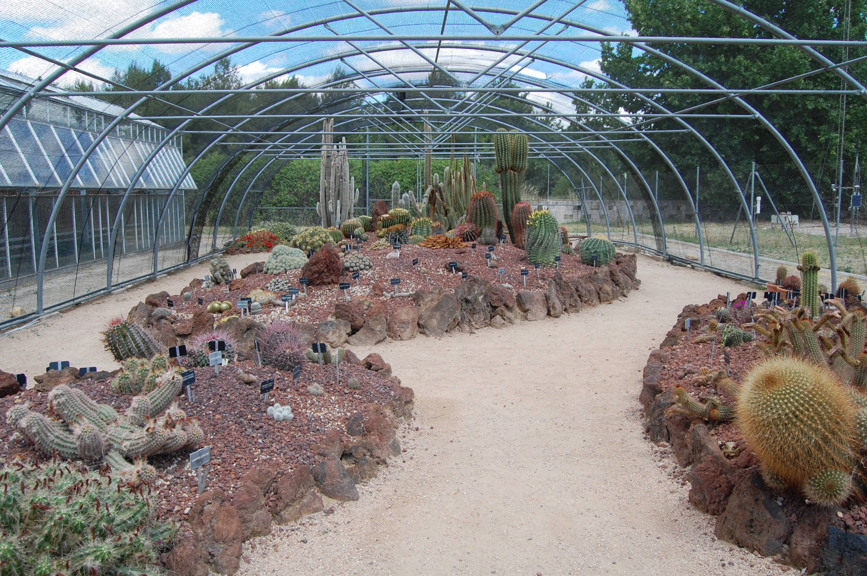 Royal Botanic Gardens, Juan Carlos I, located on the campus of Alcalá de Henares (University of Alcalá). Founded in 1990. Cactus Greenhouses.